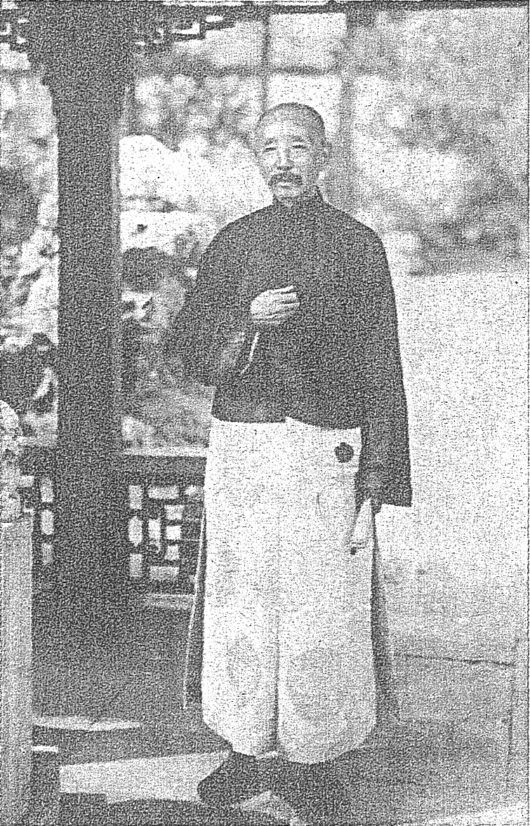 Zhang Zuolin at the office of the Generalissimo on May 24, 1928 before leaving Peking